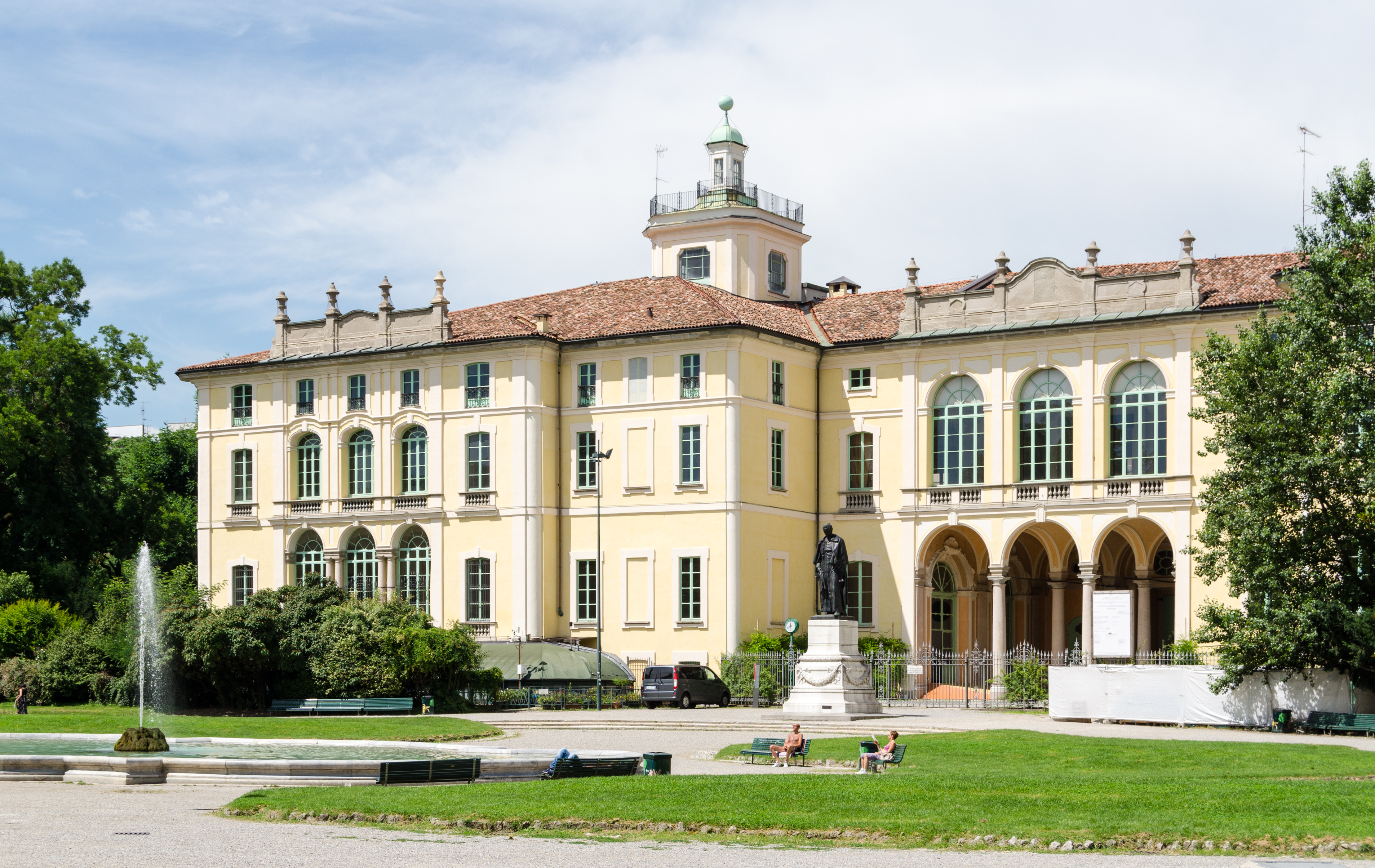 Milan (Lombardy, Italy) – Palazzo Dugnani – eastern facade, view from the Giardini Pubblici Indro Montanelli